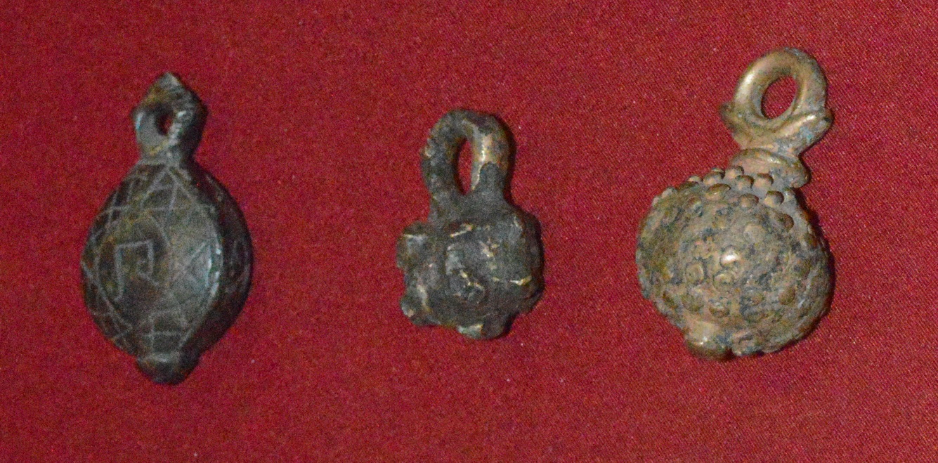 Striking weights of flail weapons, Novgorod, Vshchizh, 12-13 c.